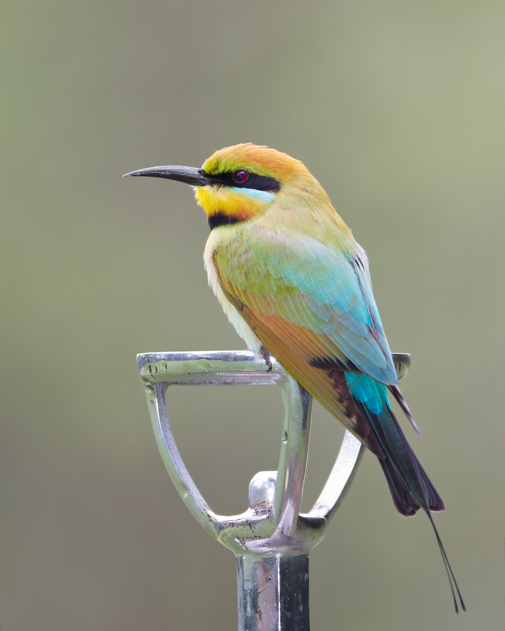 A Rainbow Bee-eater perching on a drinking fountain at Centenary Lakes, Cairns, Queensland, Australia.